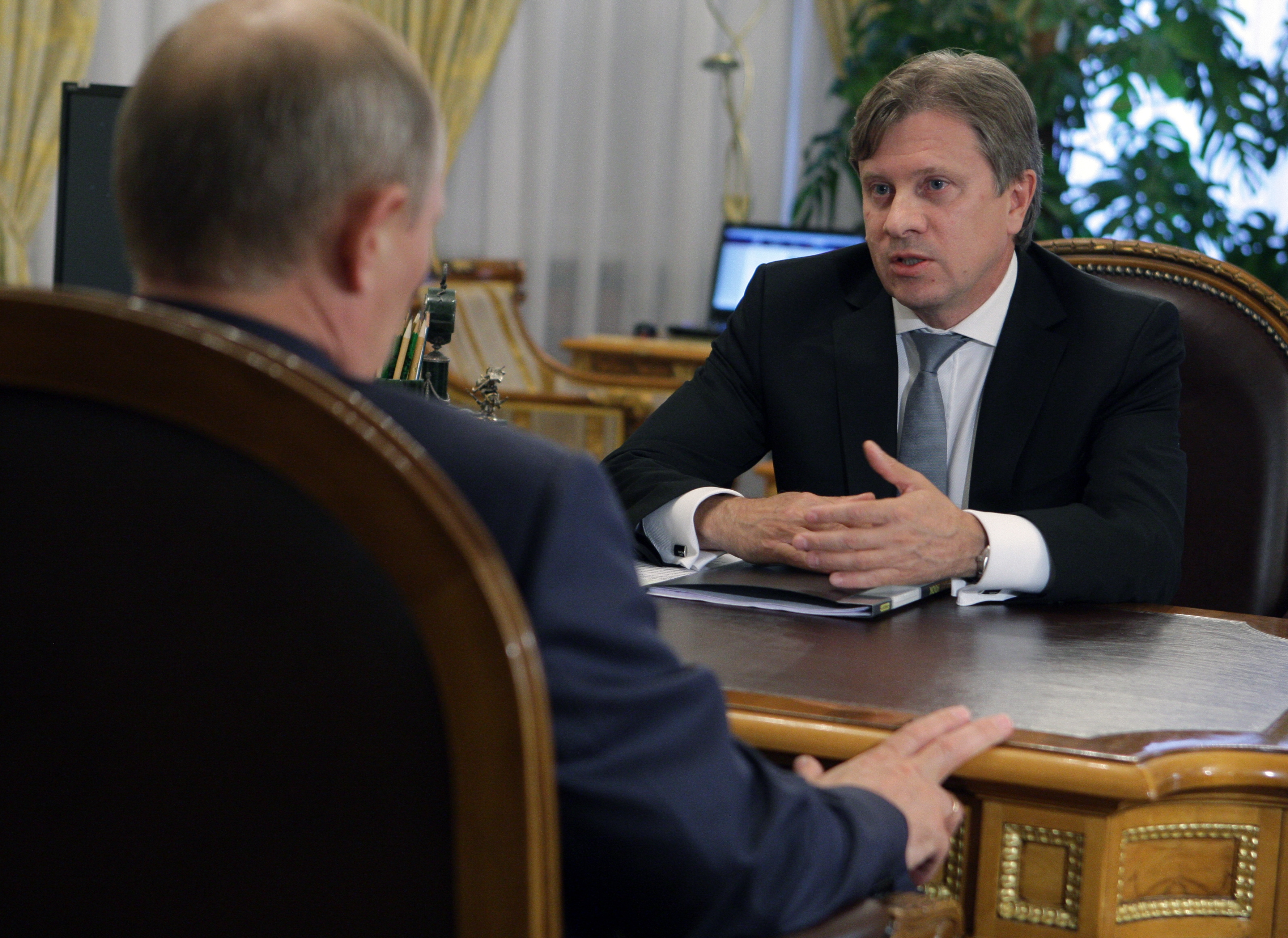 Vitaly Savelyev, CEO of the Aeroflot company meeting Russian Prime-Minister Vladimir Putin (cropped out)